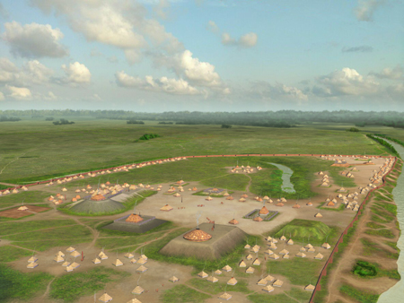 "Kincaid Mounds circa 1300 CE", digital illustration. Artists conception of the late phase of the Kincaid Mounds Site circa 1300 CE. Kincaid is a Middle Mississippian Culture multi-mound archaeological site site located in Massac and Pope Counties, Illinois. All rights held by the artist, Herb Roe © 2019.